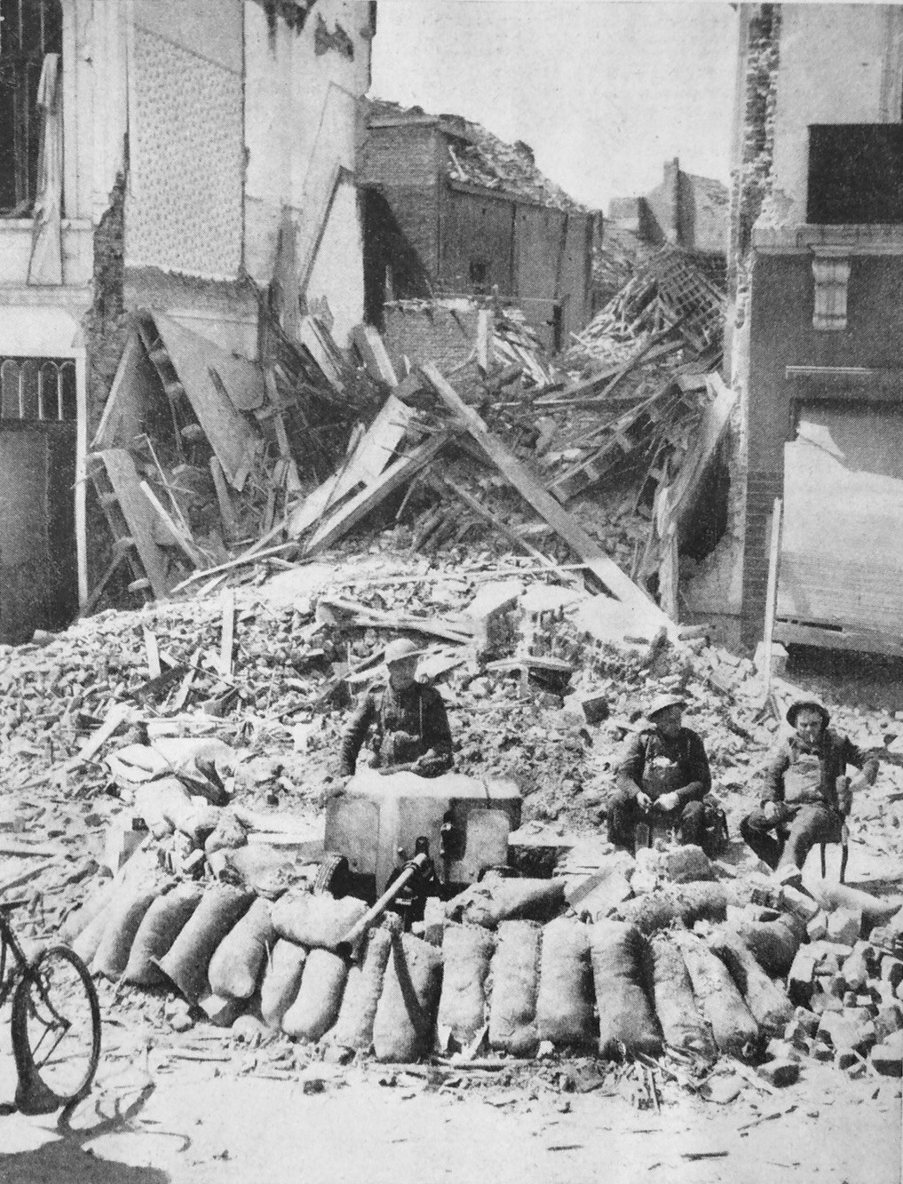 Anti-tank post manned by British soldiers in Louvain, amid rubble